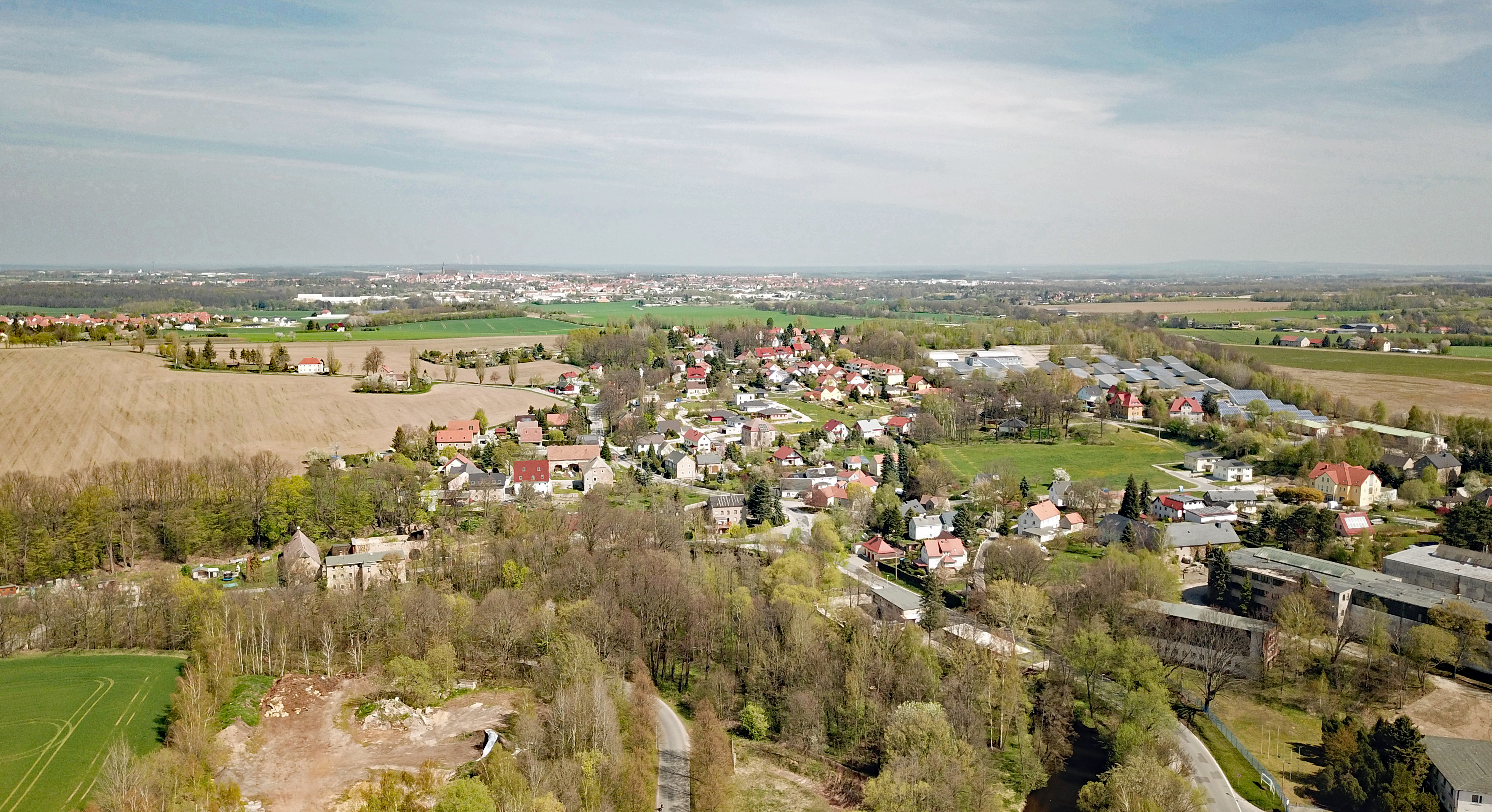 Singwitz, Obergurig, Saxony, Germany Hornjoserbsce: Powětrowy wobraz Dźěžnikec